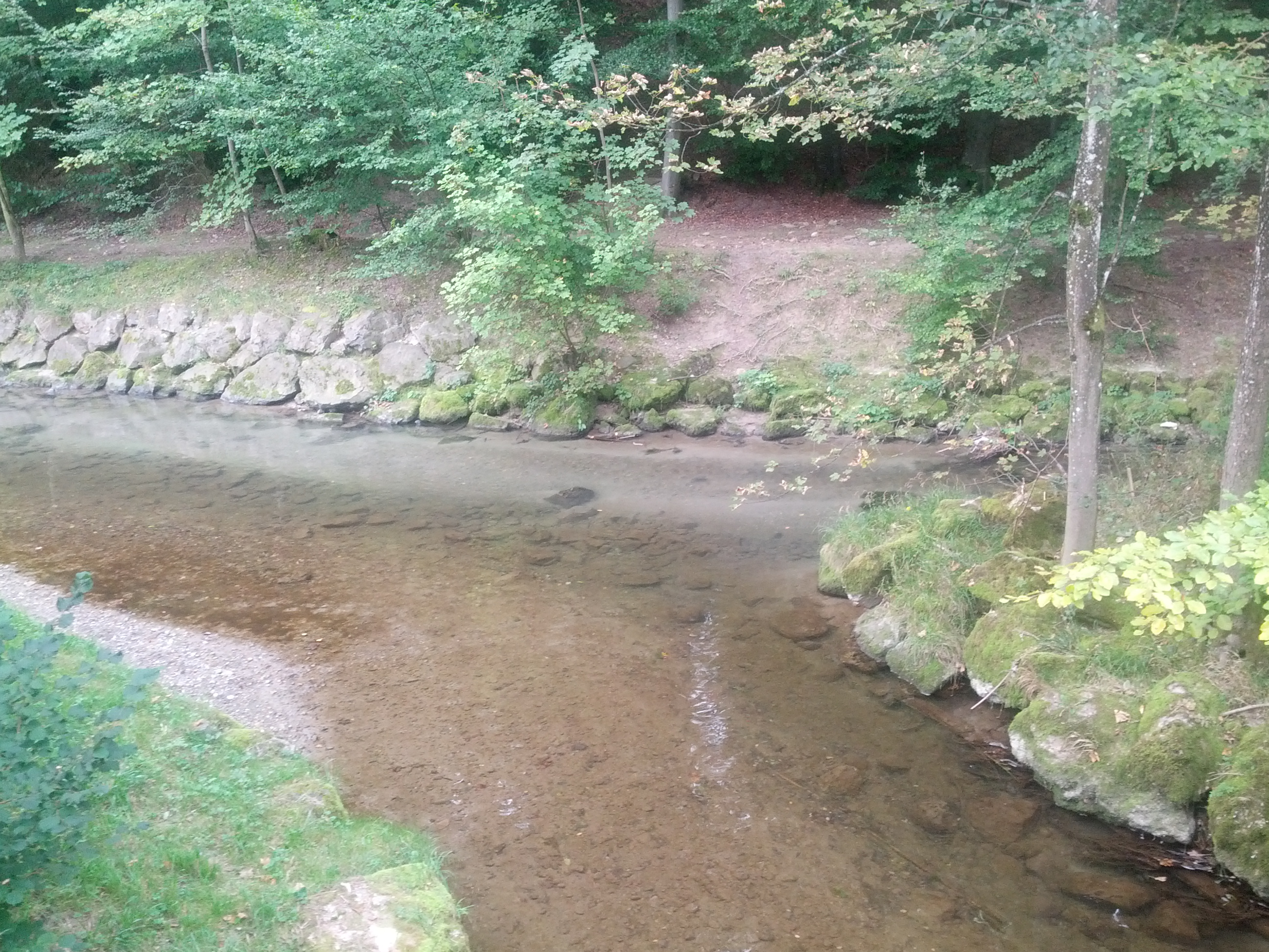 Confluence of the Mèbre and the Sorge, which are recreating the Chamberonne, seen from the Mèbre.